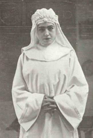 Spanish Actress María Luisa Moneró